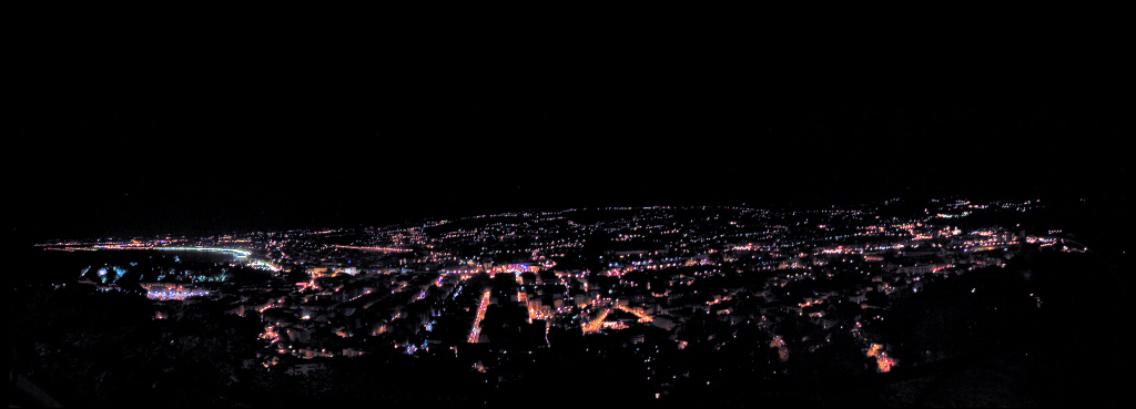 Nice at Night - Panoramic image from the Mont Alban. This a composite picture. I took several pictures myself with a digital camera Olympus C-960. The picture were joined together with heavy digital edit.